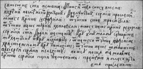 manuscript of 18th century song, written by its author Vasilije III Petrović-Njegoš